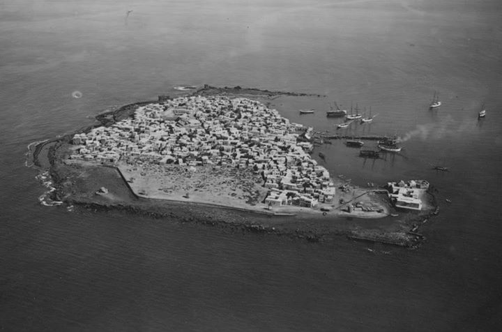 Arwad island, Syria in the 1930s, by Pierre Antoine Berrurier.